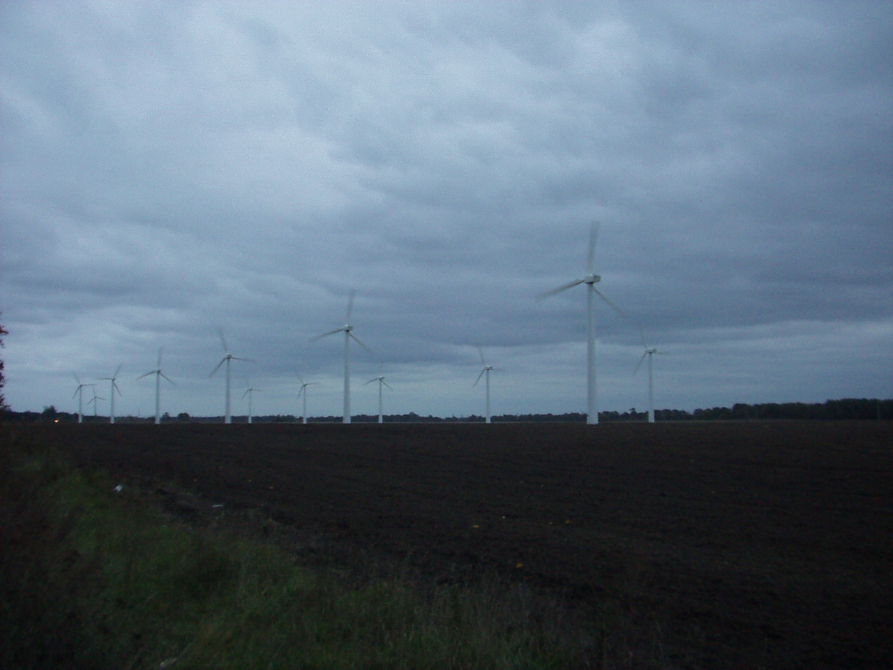 Zelenogradsk wind farm